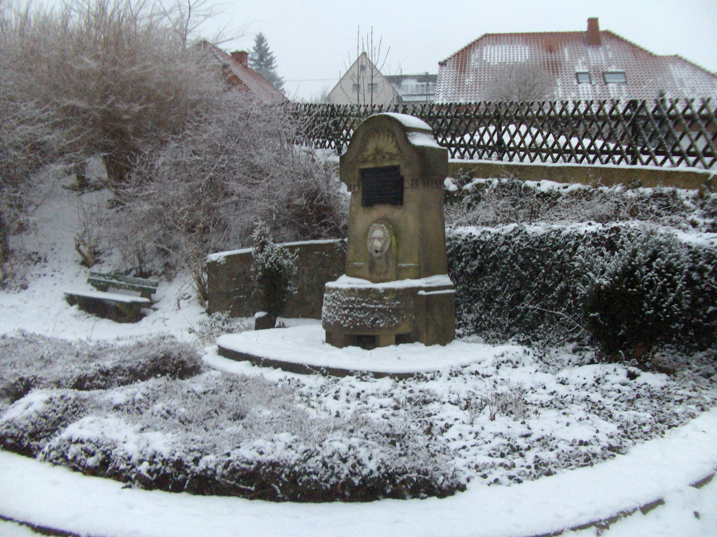 water monument in Wewelsburg